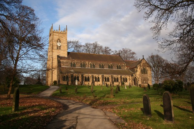 St Margaret's parish church, Swinton, South Yorkshire, seen from the south